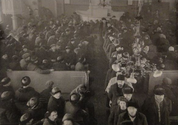 1918 Finnish Civil War Red Guard members held in custody in the local church after the Battle of Varkaus, 19-21 February 1918.